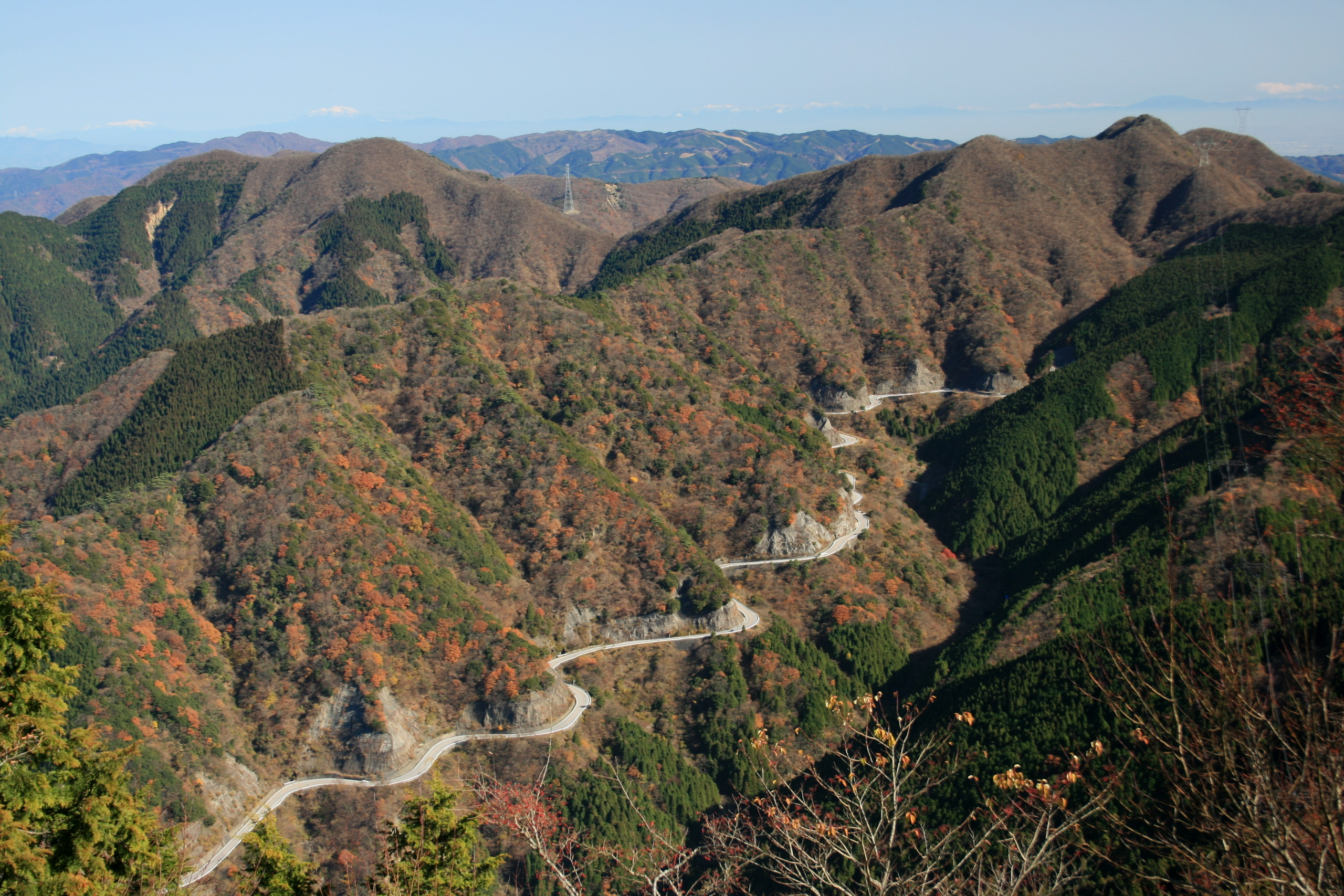 Route 306 near Kurakake Pass